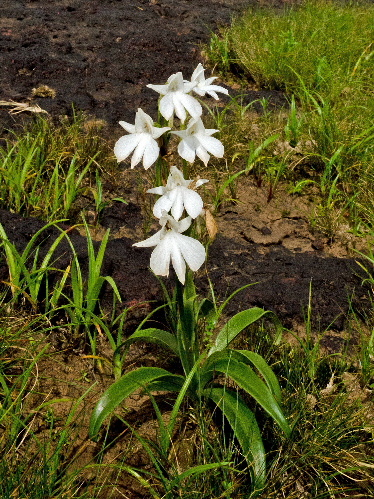 Panchagani habenaria orchid family, unique flower grows on kaas plateau satara.